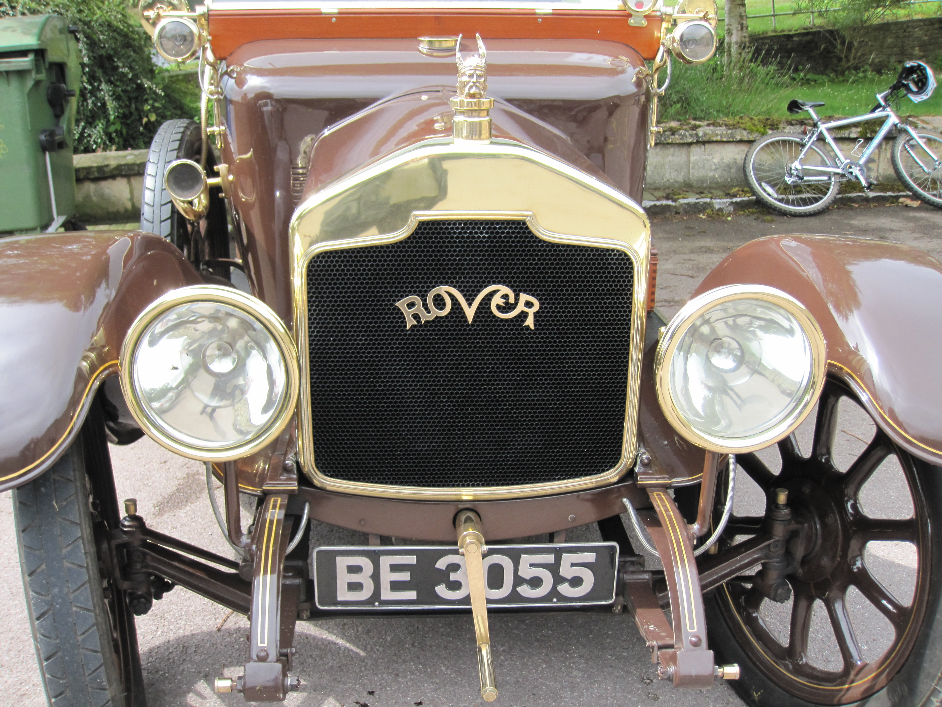 1914 Rover 12 tourer (DVLA) first registered 31 December 1914, 2297 cc VCC Cotswold caper